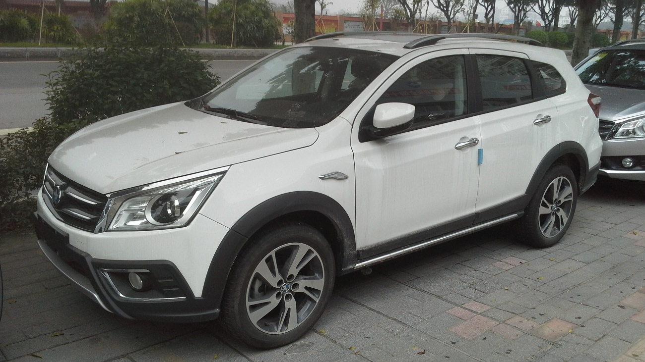 Venucia T70X photographed in Guangzhou, Guangdong province, China.